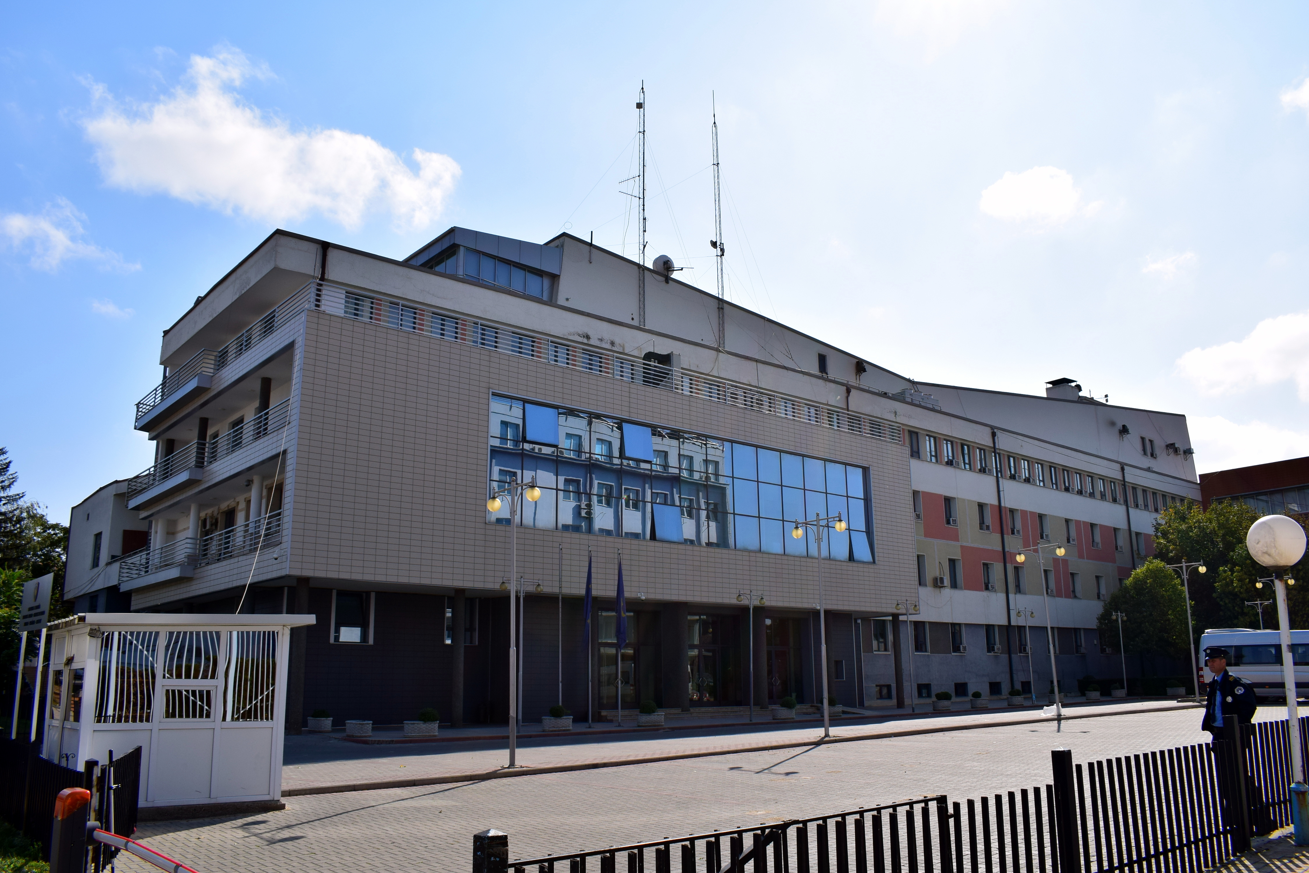 Kosovo Parliament